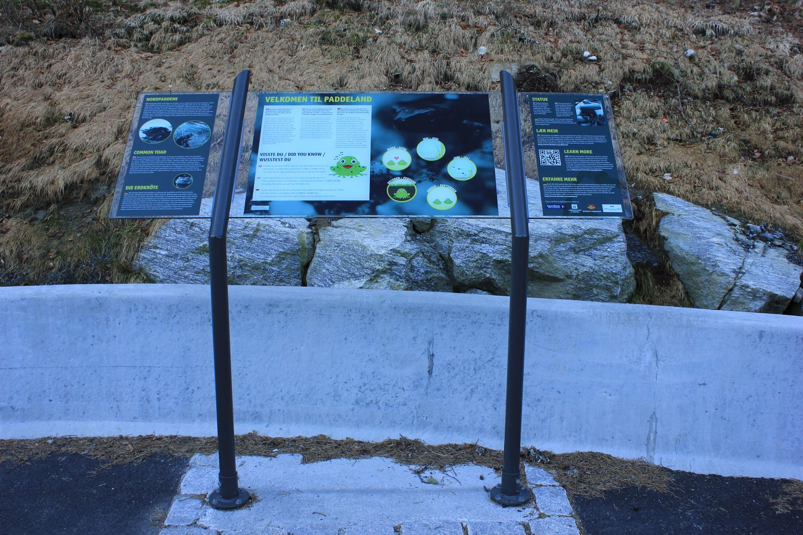 This is the concrete toad by the Kvivsvegen road